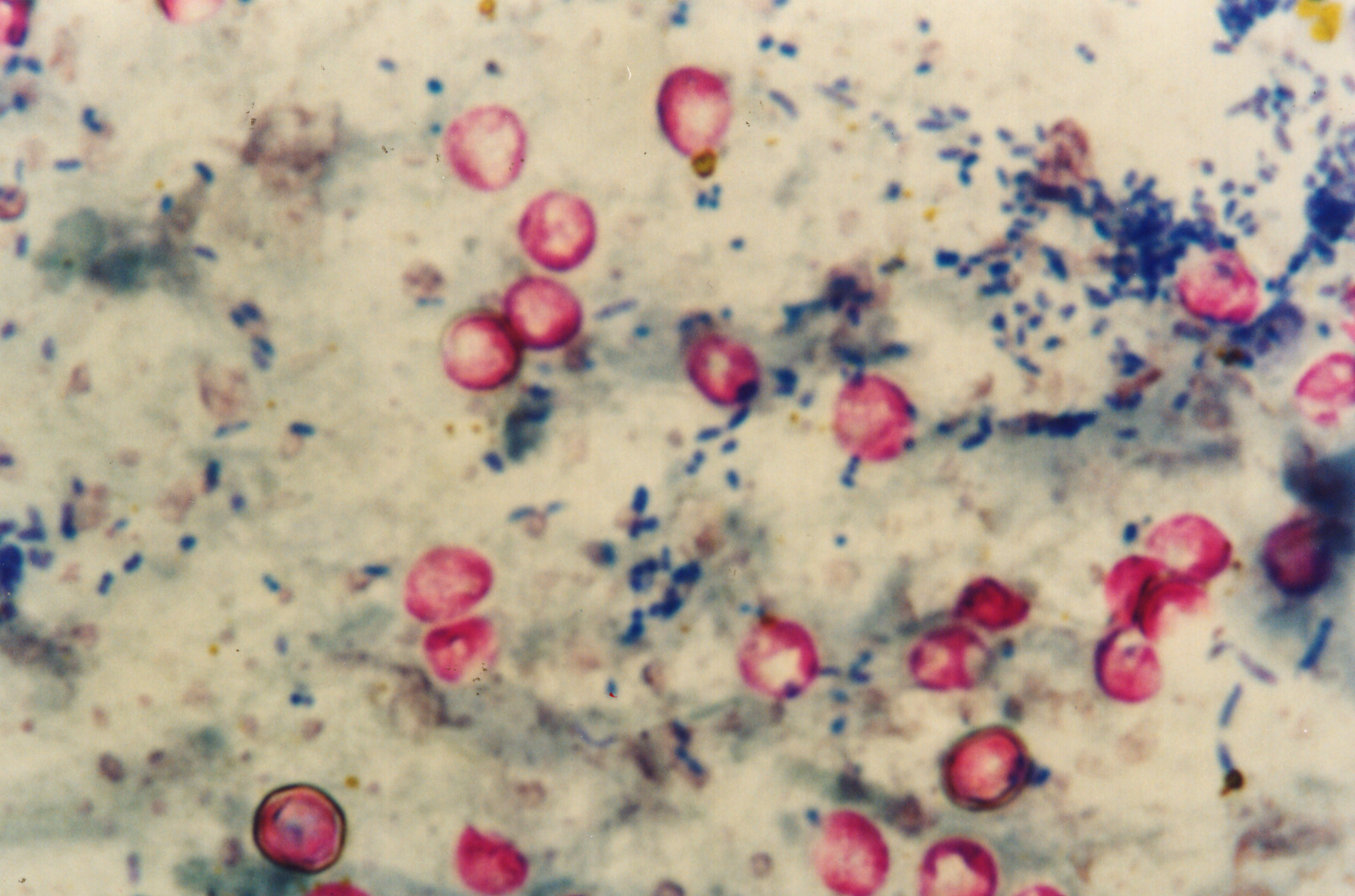 Cryptosporidium parvum